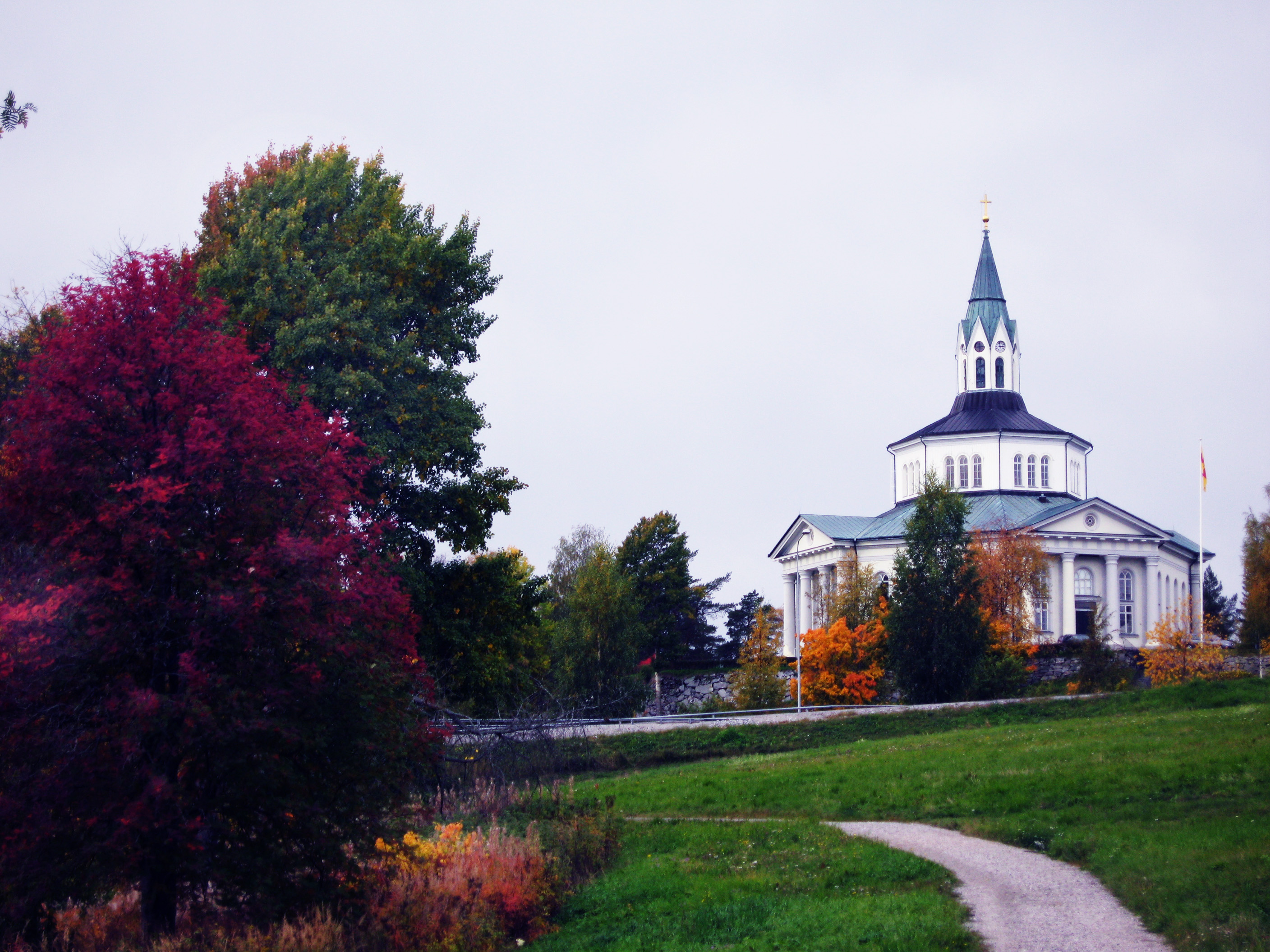 Själevad Church